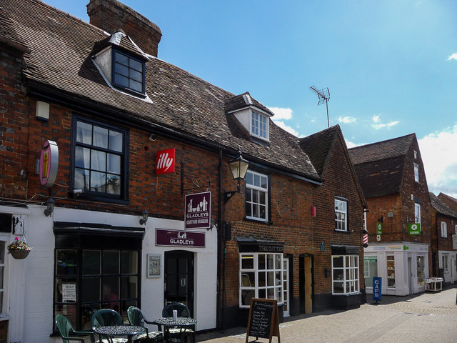 An image of Middle Row in Stevenage Old Town